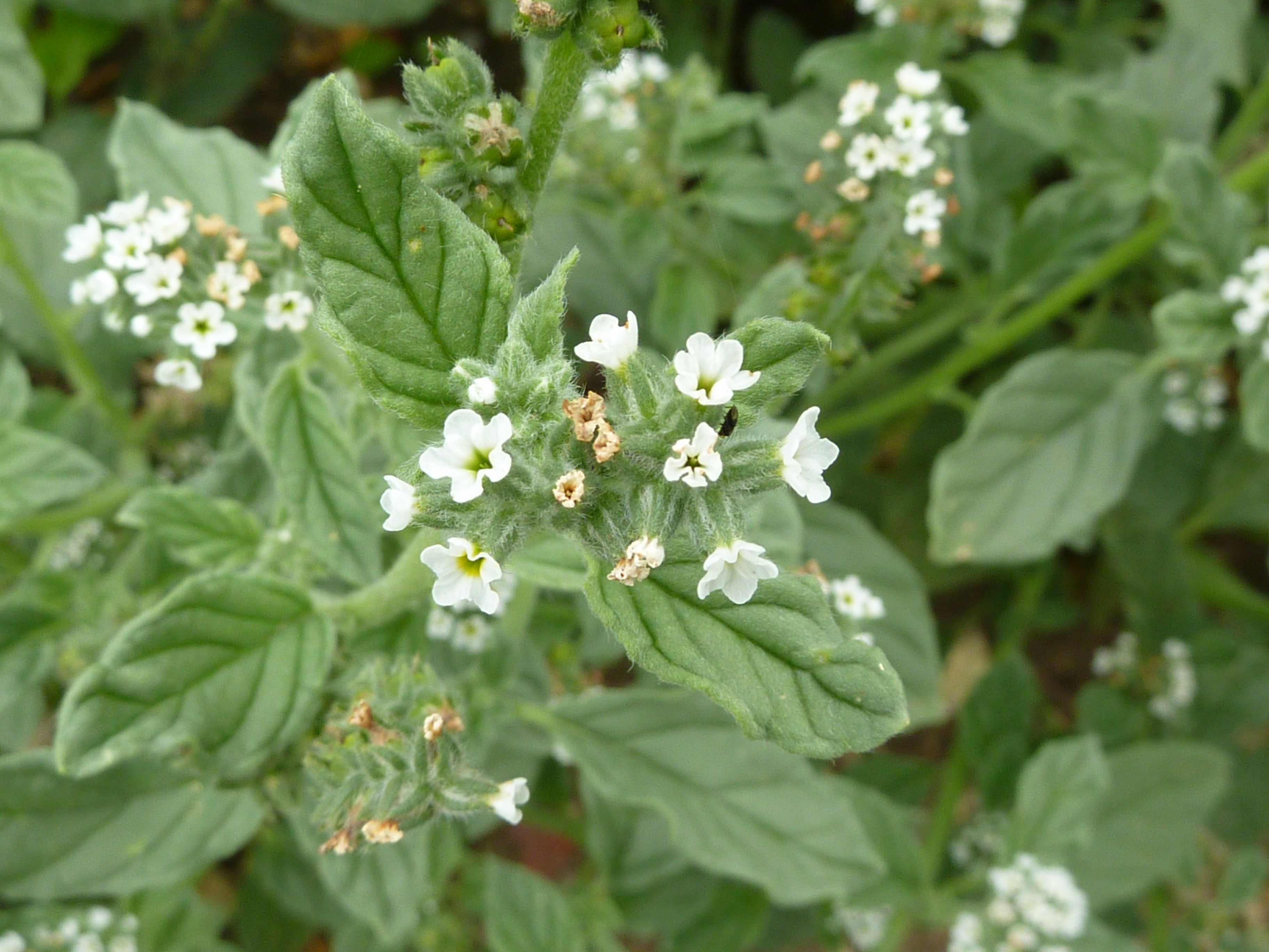 Heliotropium europaeum, Cambridge University Botanic Garden